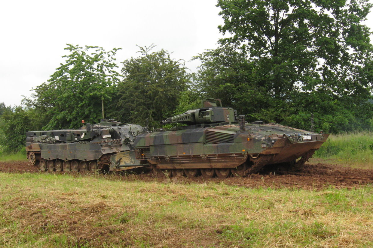 Puma IFV